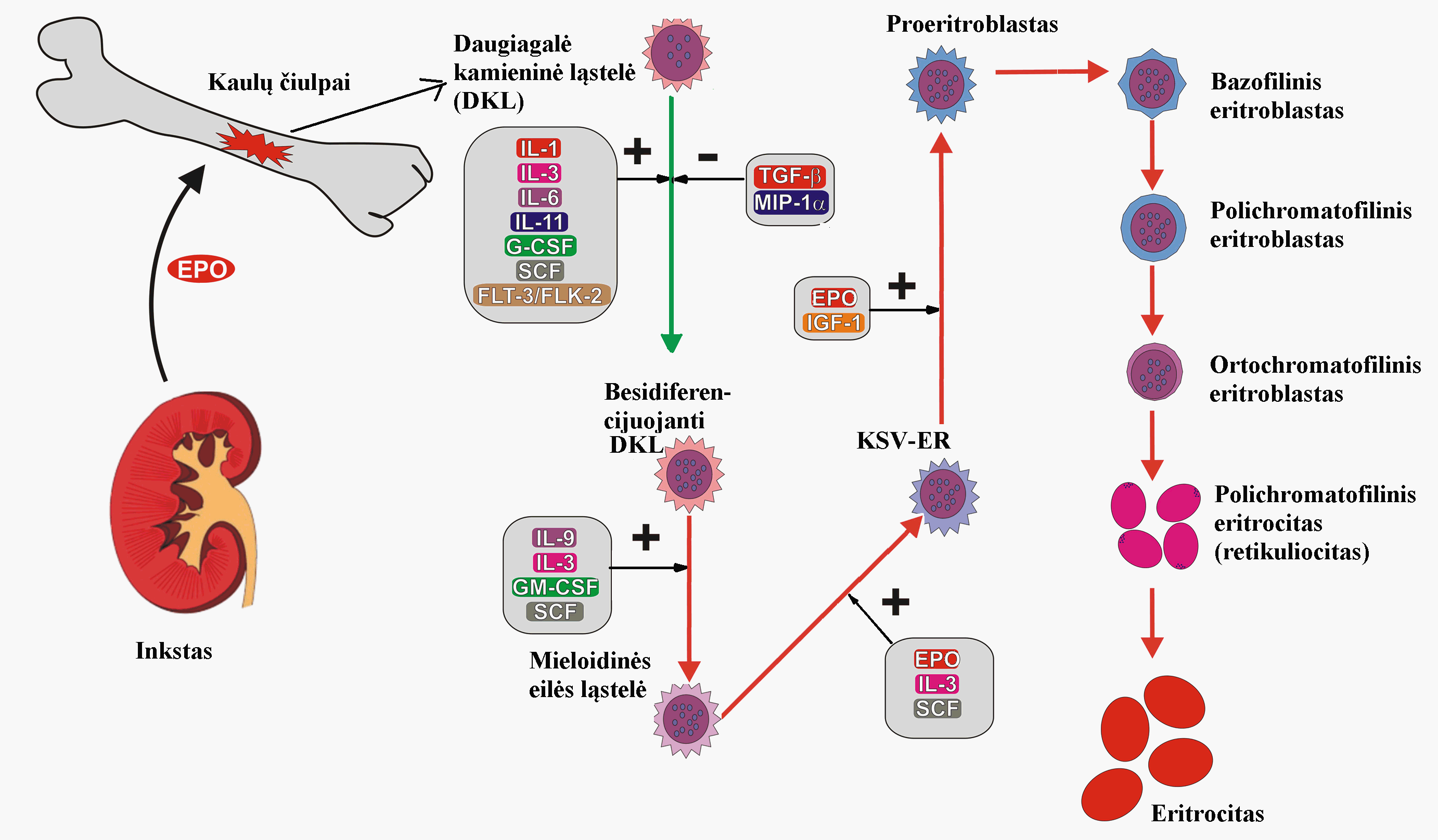 Process of Erythropoiesis